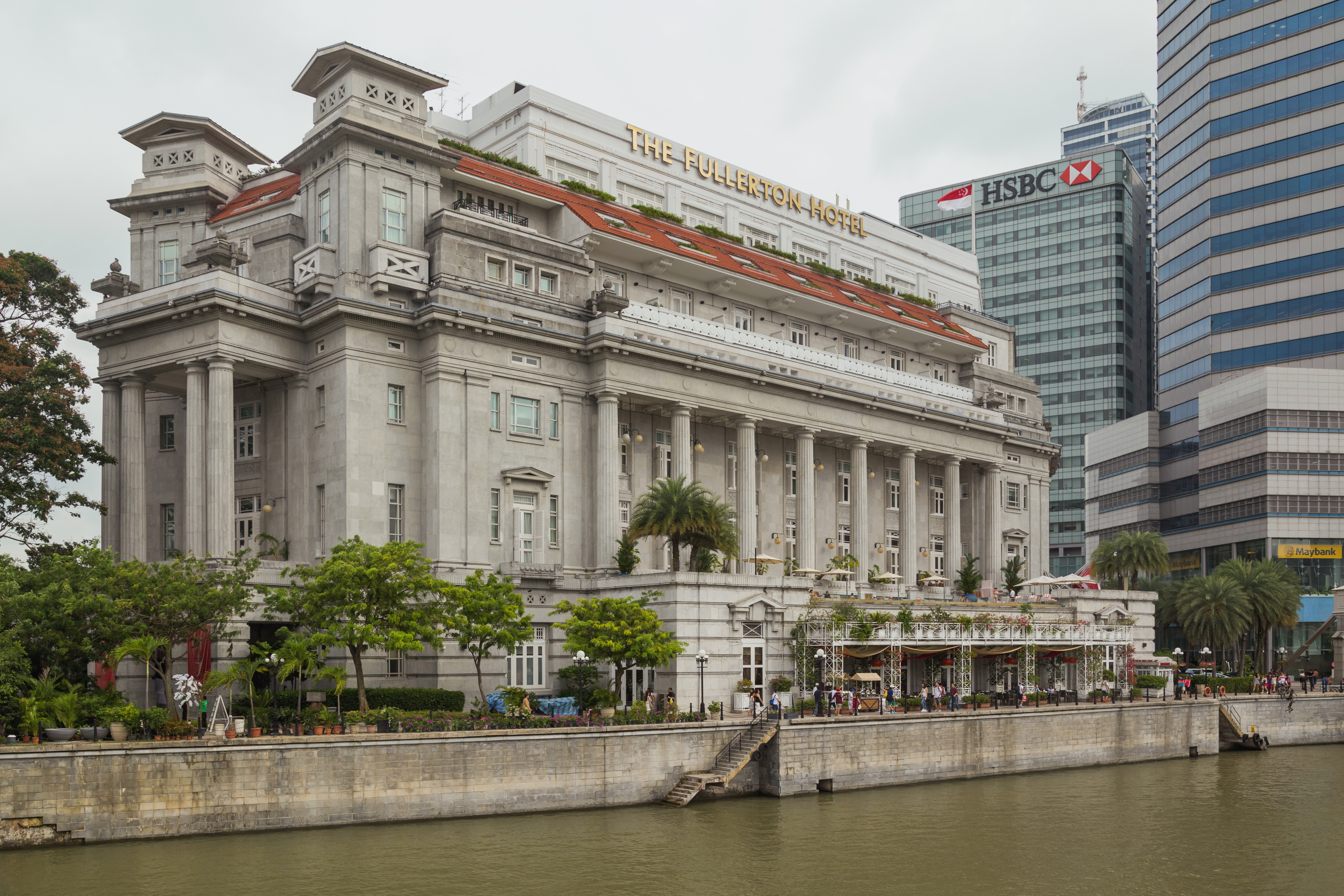 The Fullerton Hotel. Downtown Core, Central Region, Singapore.